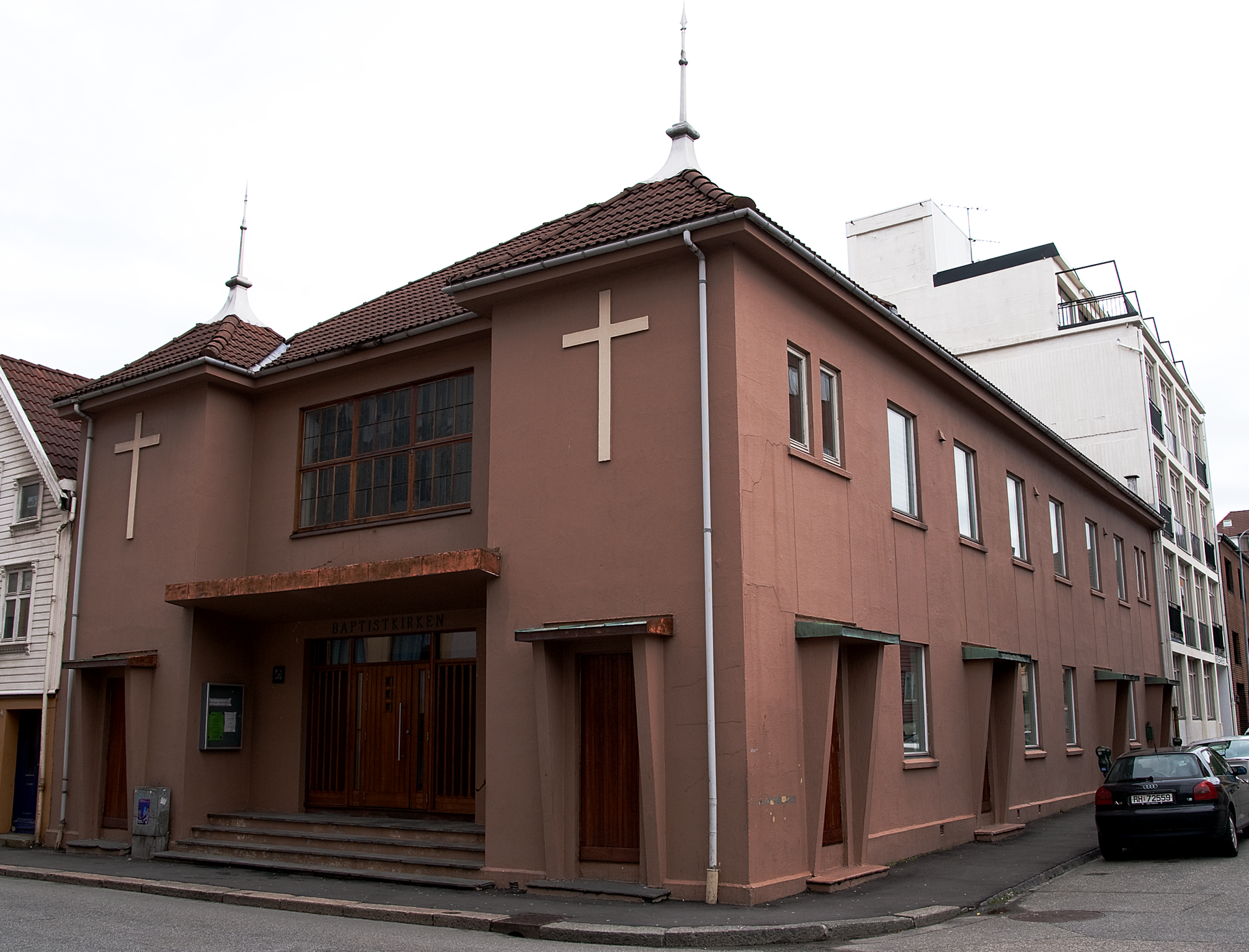 Baptist Church in Stavanger